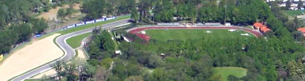 Romeo Galli Stadium in Imola's "Parco delle Acque Minerali